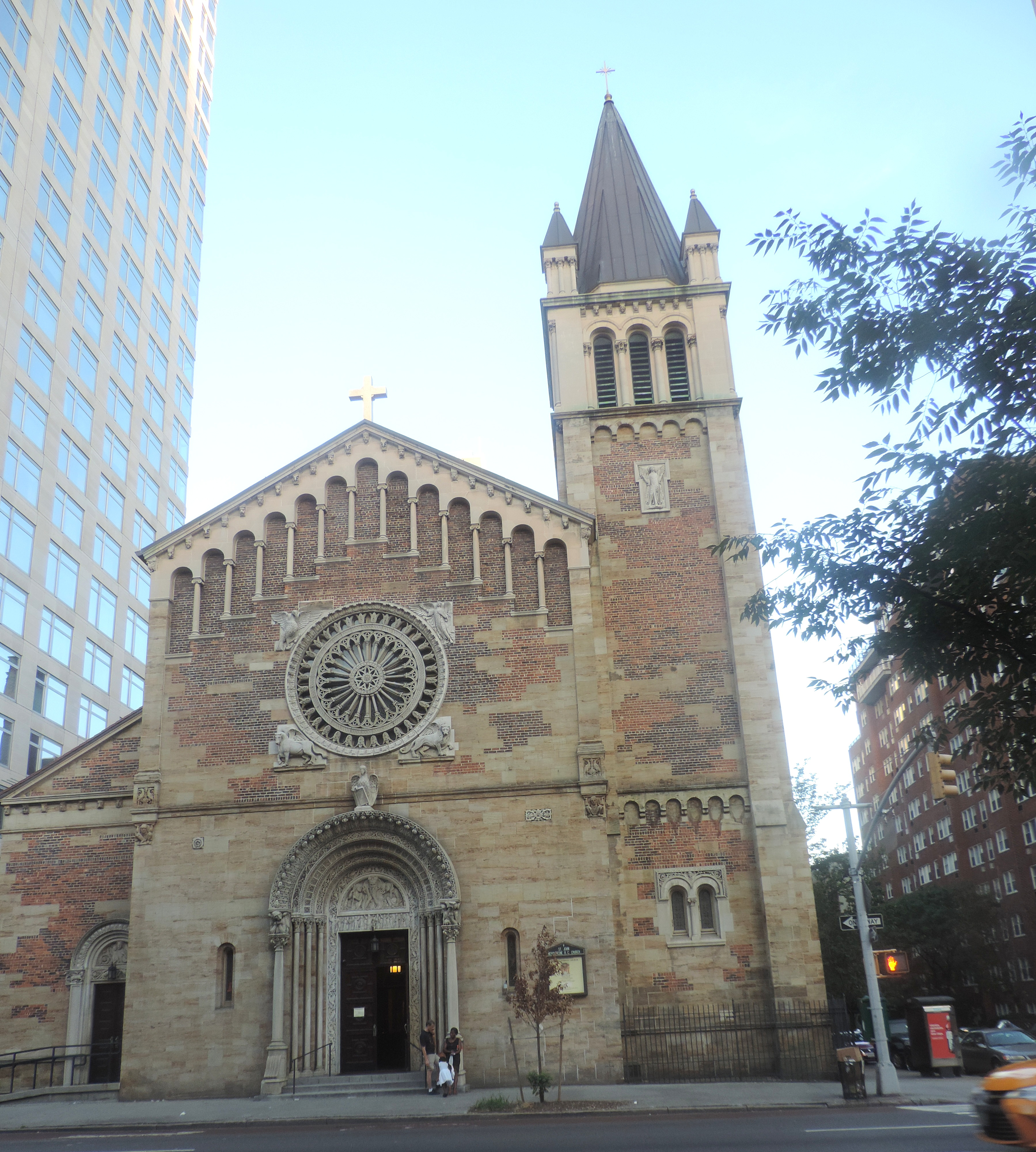 Looking east at church, shaded on a mostly sunny day.